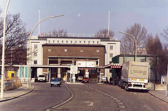 Old Elbe Tunnel (south side) in Hamburg, Germany.